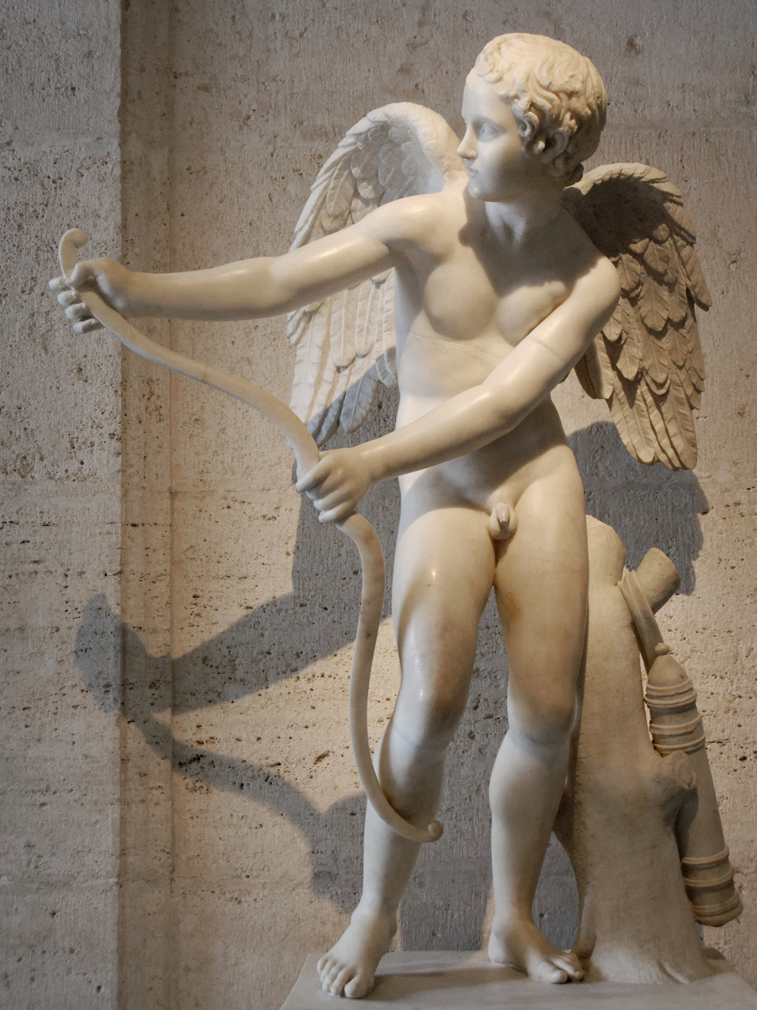 Amor stringing his bow, Roman copy after Greek original by Lysippos.